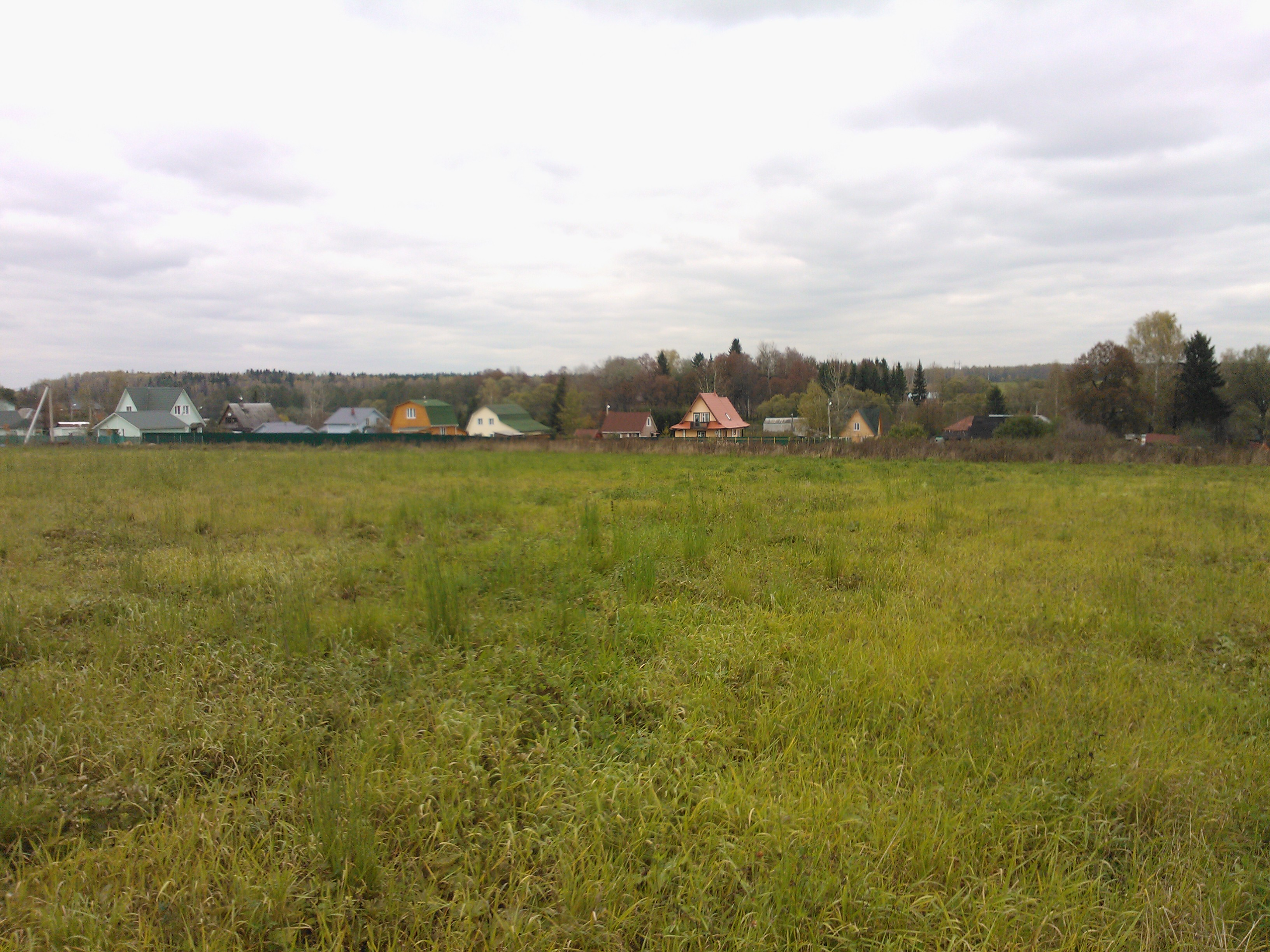 Battlefield of Tarutino. At the year 2013 view from the center of battlefield the the village of Teterinki